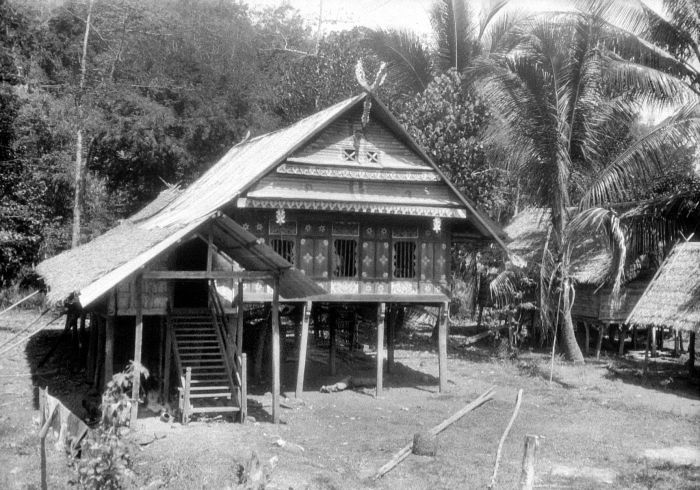 House